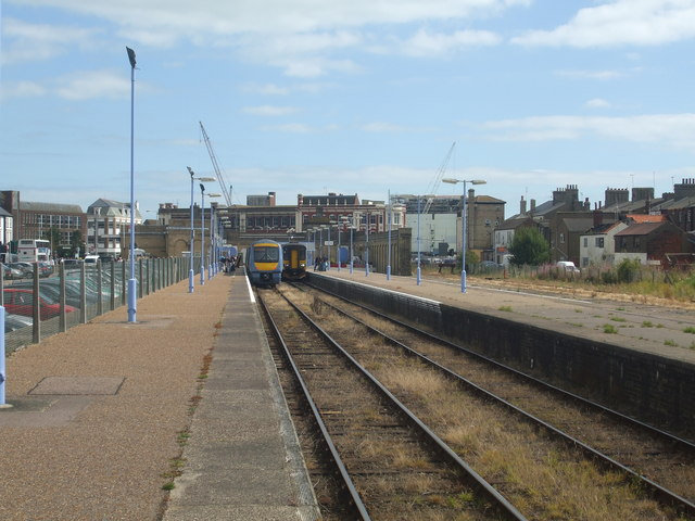 Lowestoft Railway Station looking East The Most Easterly station in Britain is the second most used in Suffolk (after Ipswich). The services are usually by small DMUs (like the ones in the picture) but sometimes entertains long charter trains. This photo shows the roof a year before demolition.